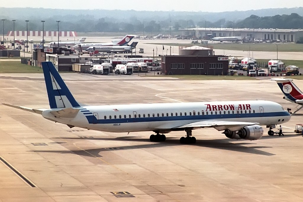 N919JW Douglas DC-8-73CF Arrow Air. Summer charter visitor to Gatwick 26 Jun 1983